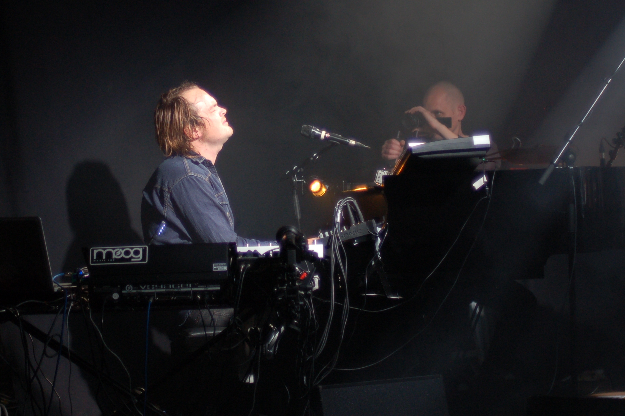 Morten Qvenild: Photo: Thomas Bjørndahl